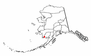 Adapted from Wikipedia's AK borough maps by Seth Ilys.